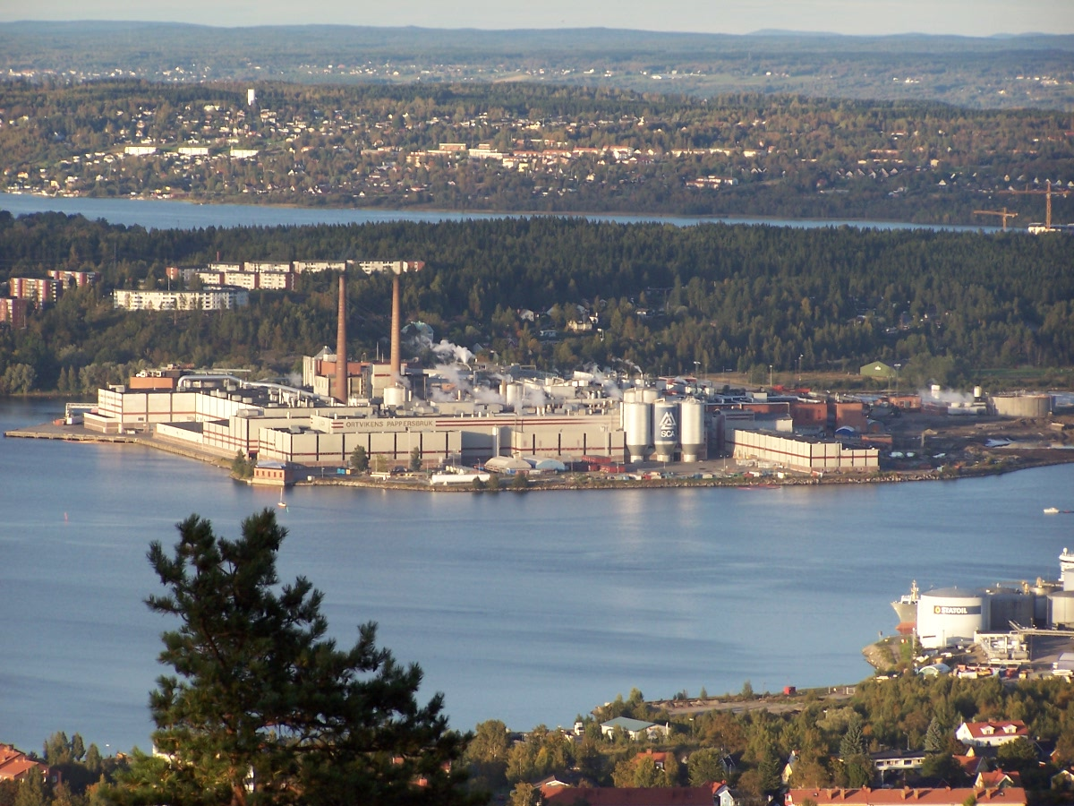 Ortvikens Paper Mill Sundsvall, Sweden - view from Södra Berget